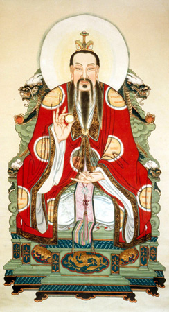 A painting of the Yuanshi Tianzun ('the Primeval Lord of Heaven') one of the supreme divinities of Daoism.